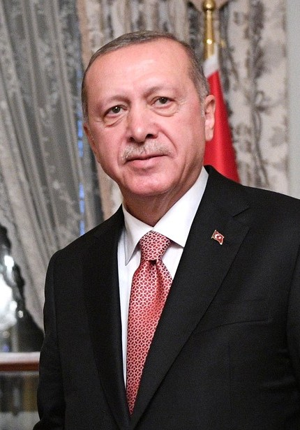 Portrait version of Turkish President Recep Tayyip Erdoğan, Istanbul, Turkey.